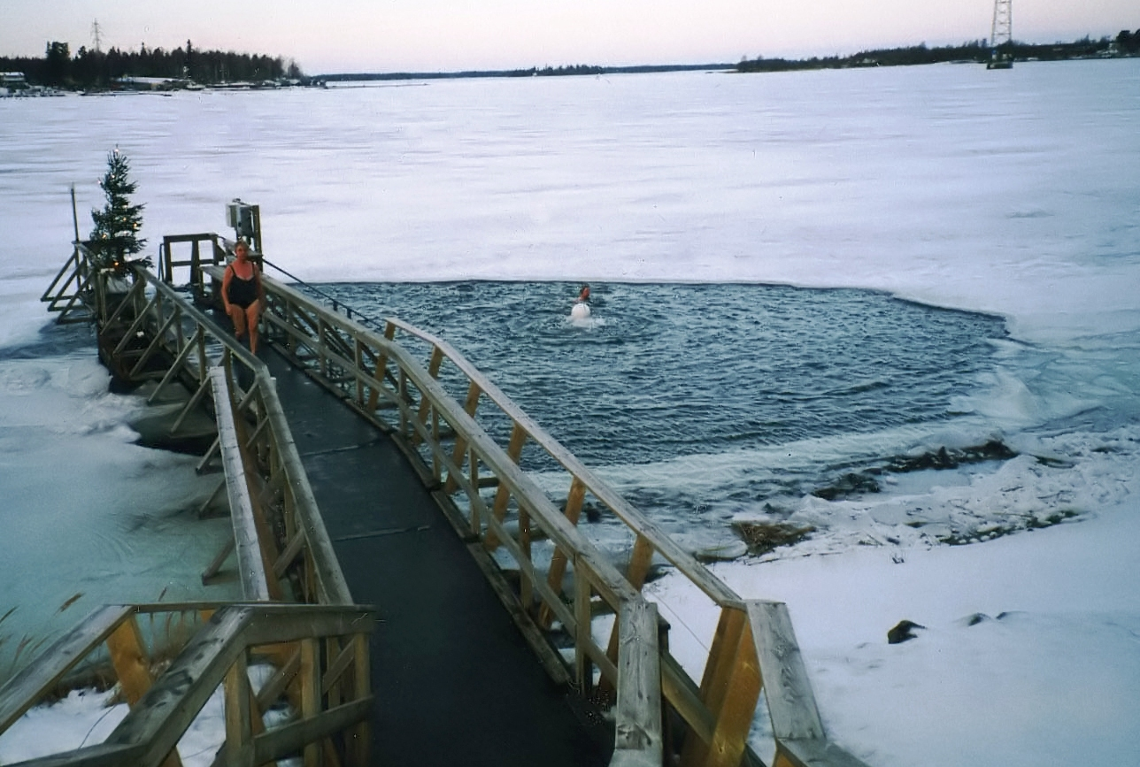 Geoff Jones photograph of a Finnish Avantouinti that is ice-swimming. In Vaasa, Finland.